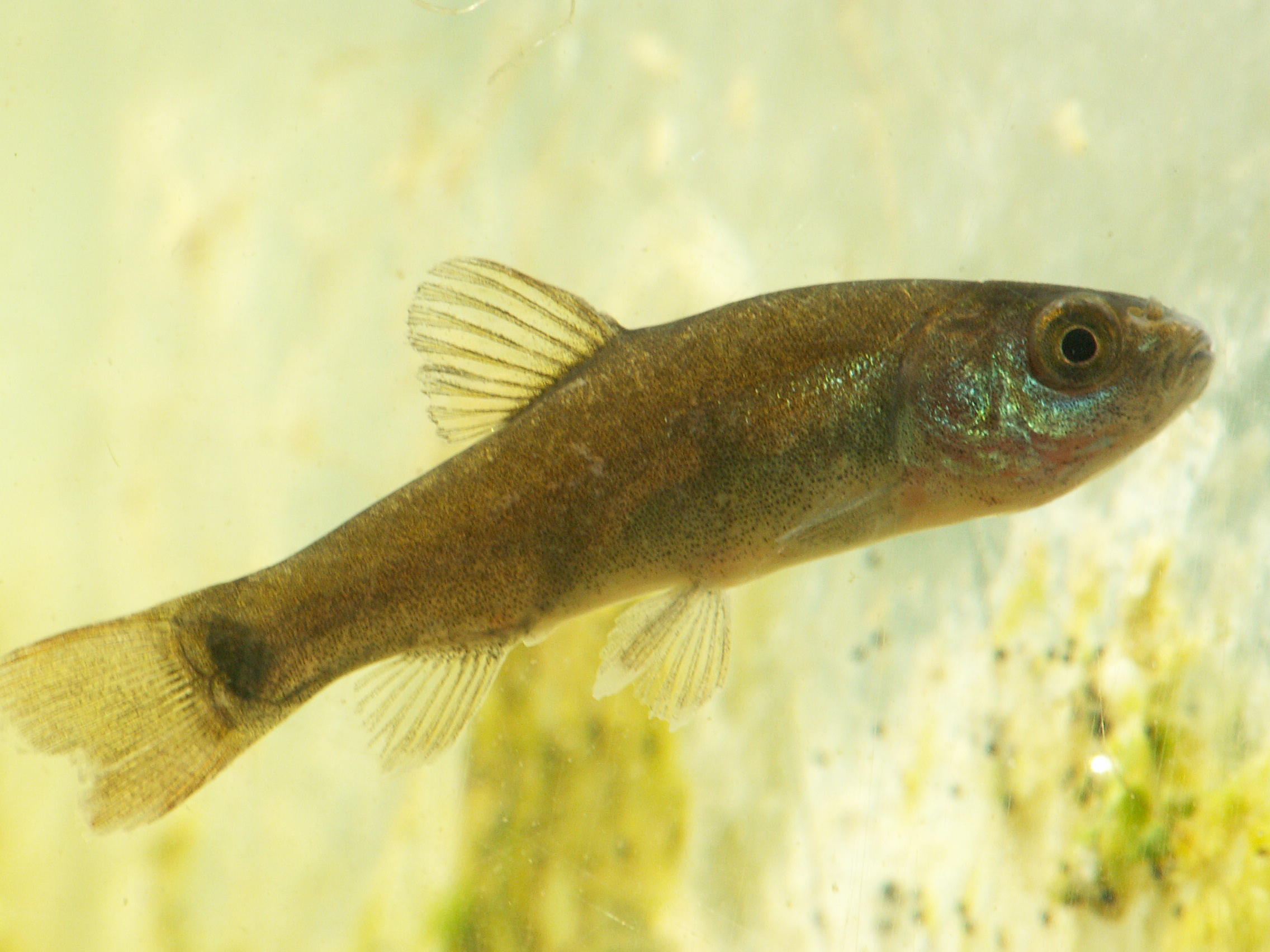 Juvenile tench (Tinca tinca) with black spot (eyespot) on the base of the tail from The Netherlands